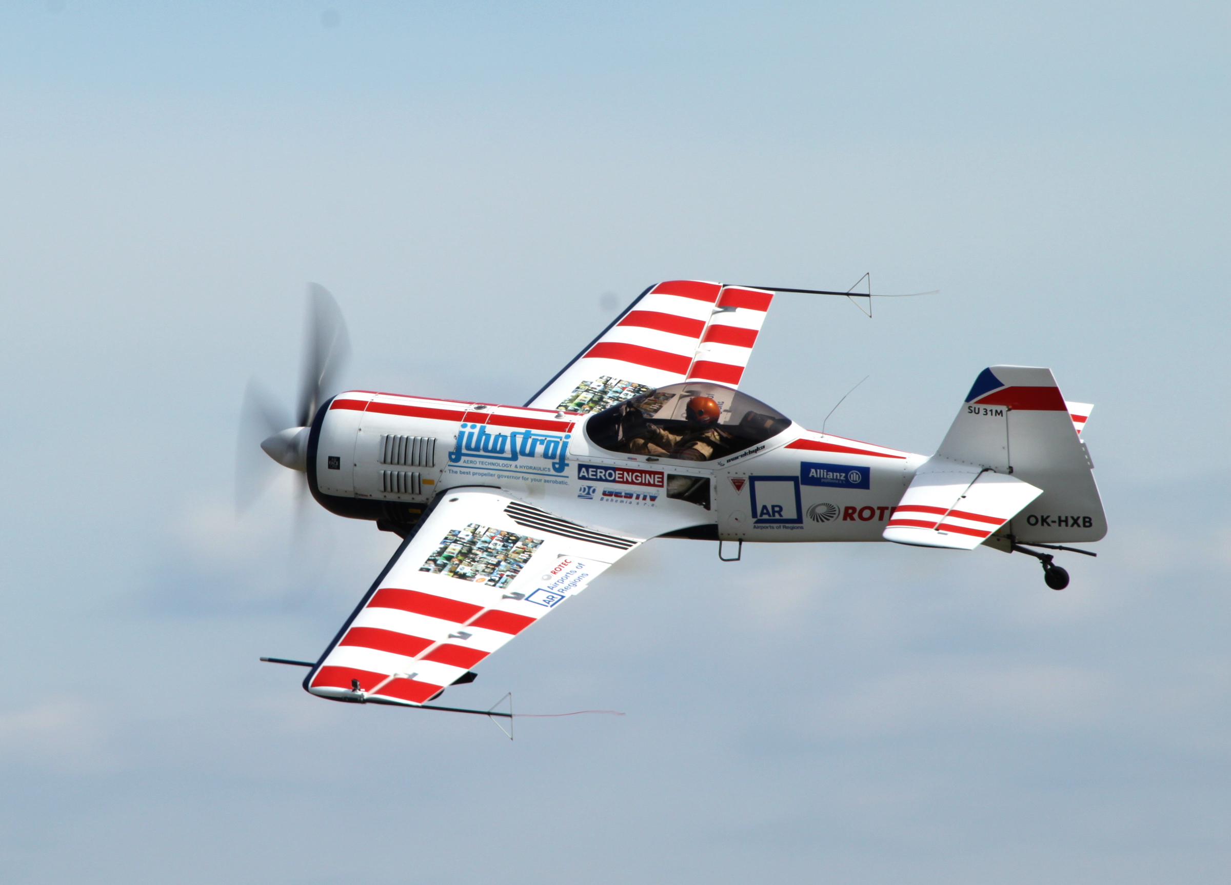 Czech acrobatic plane Sukhoi Su-31 on Czech Air show CIAF 2015 in Hradec Králové, Czech Republic